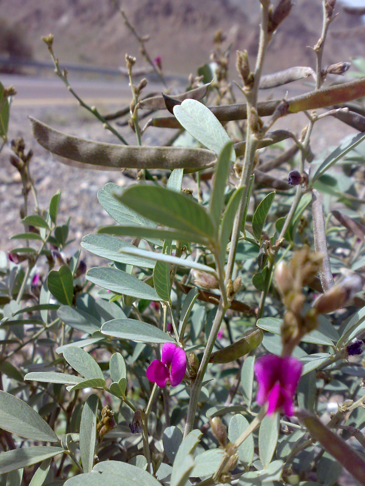 Tephrosia apollinea in the semi-desert north of Fujeirah City, Indian Ocean coast, United Arab Emirates.